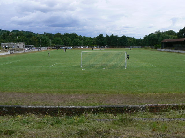 Vale of Leven Football & Athletic Club View of Vale of Leven Football & Athletic Club's Ground. Vale of Leven Juniors have a long history having been founded in 1939. The club won the Scottish Junior Cup in 1953 and won the "Evening Times" League Championships in 1947 and 1970. The current squad play in the Stagecoach Central District Second Division. The old senior Vale of Leven team won the Scottish Cup three times.